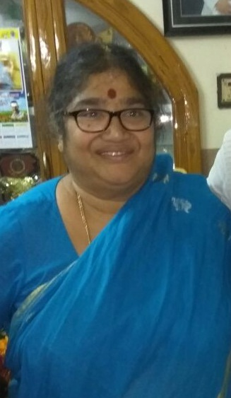 Gunda Lakshmidevi, Ex M.L.A, Srikakulam